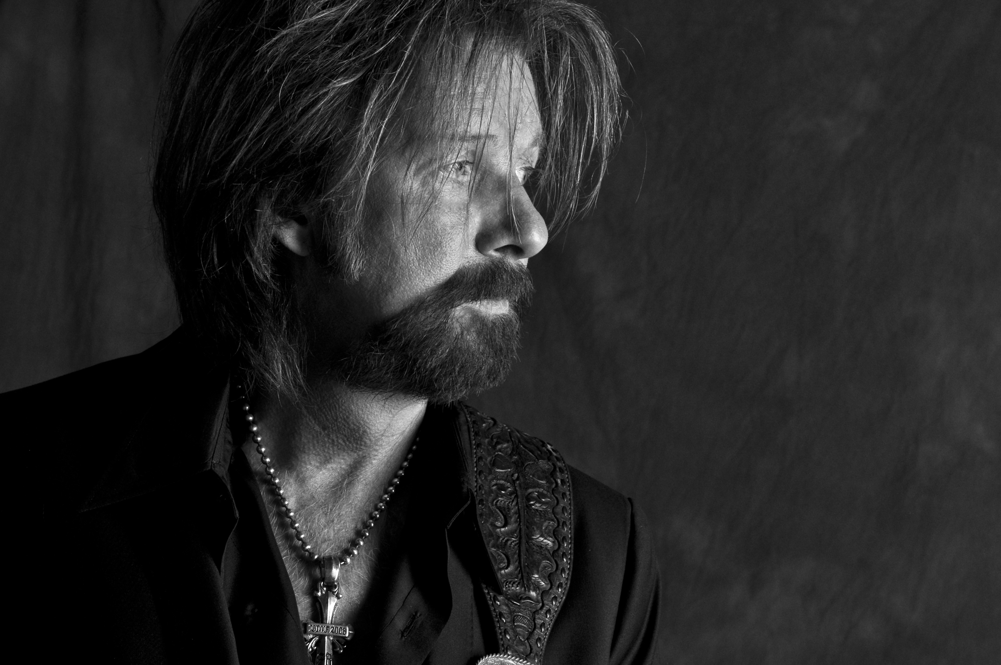 Portrait of Ronnie Dunn photograph by Jim Arndt.